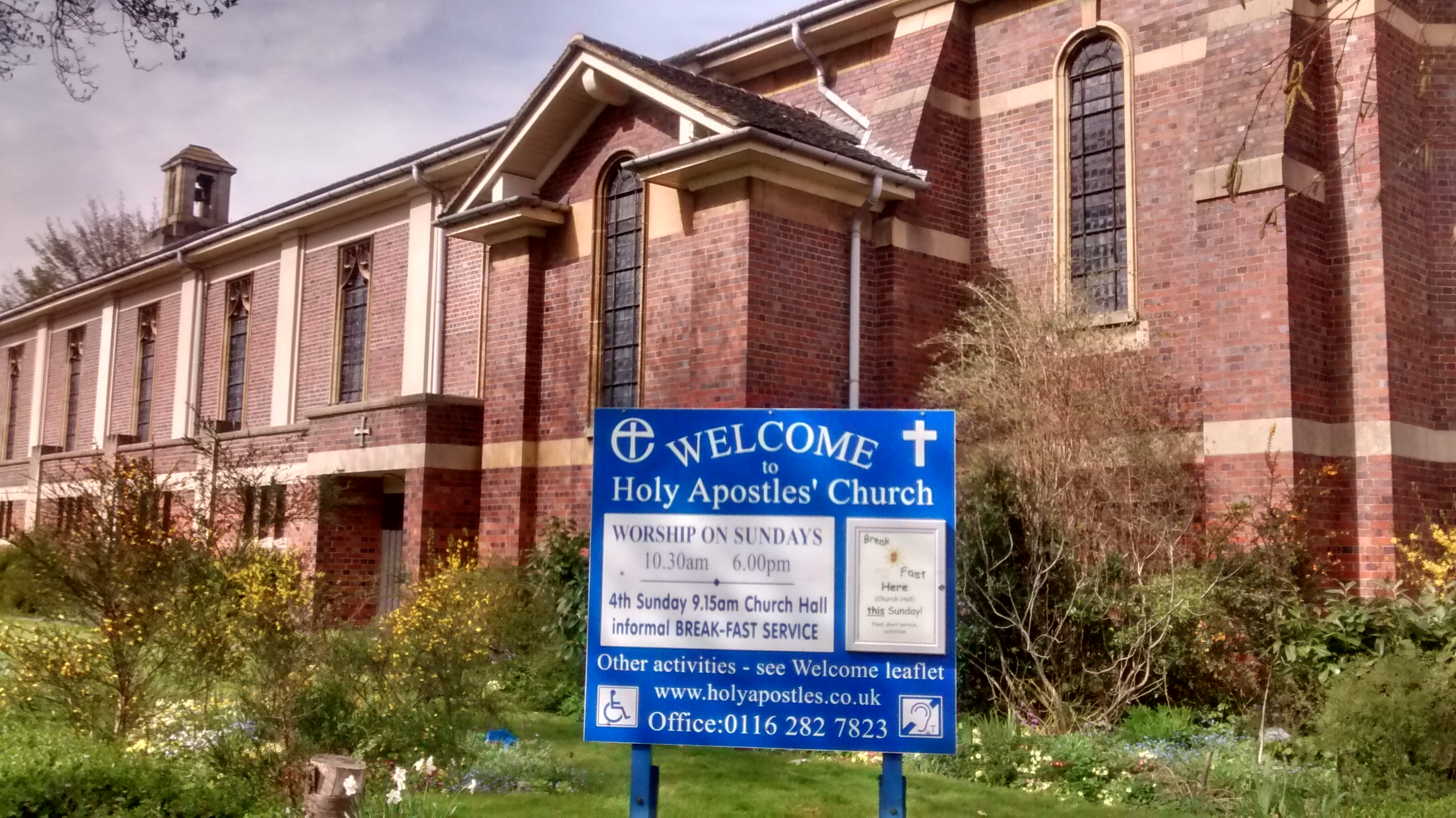 Parish church of the Holy Apostles, Imperial Avenue, Leicester, seen from the south